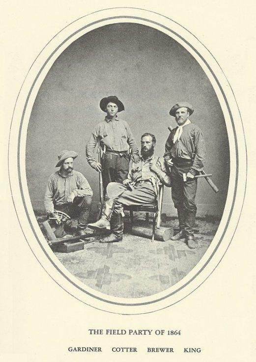 The cover of William H. Brewer's Up and Down California in 1860-1864 : James T. Gardiner, Richard D. Cotter, William H. Brewer, Clarence King